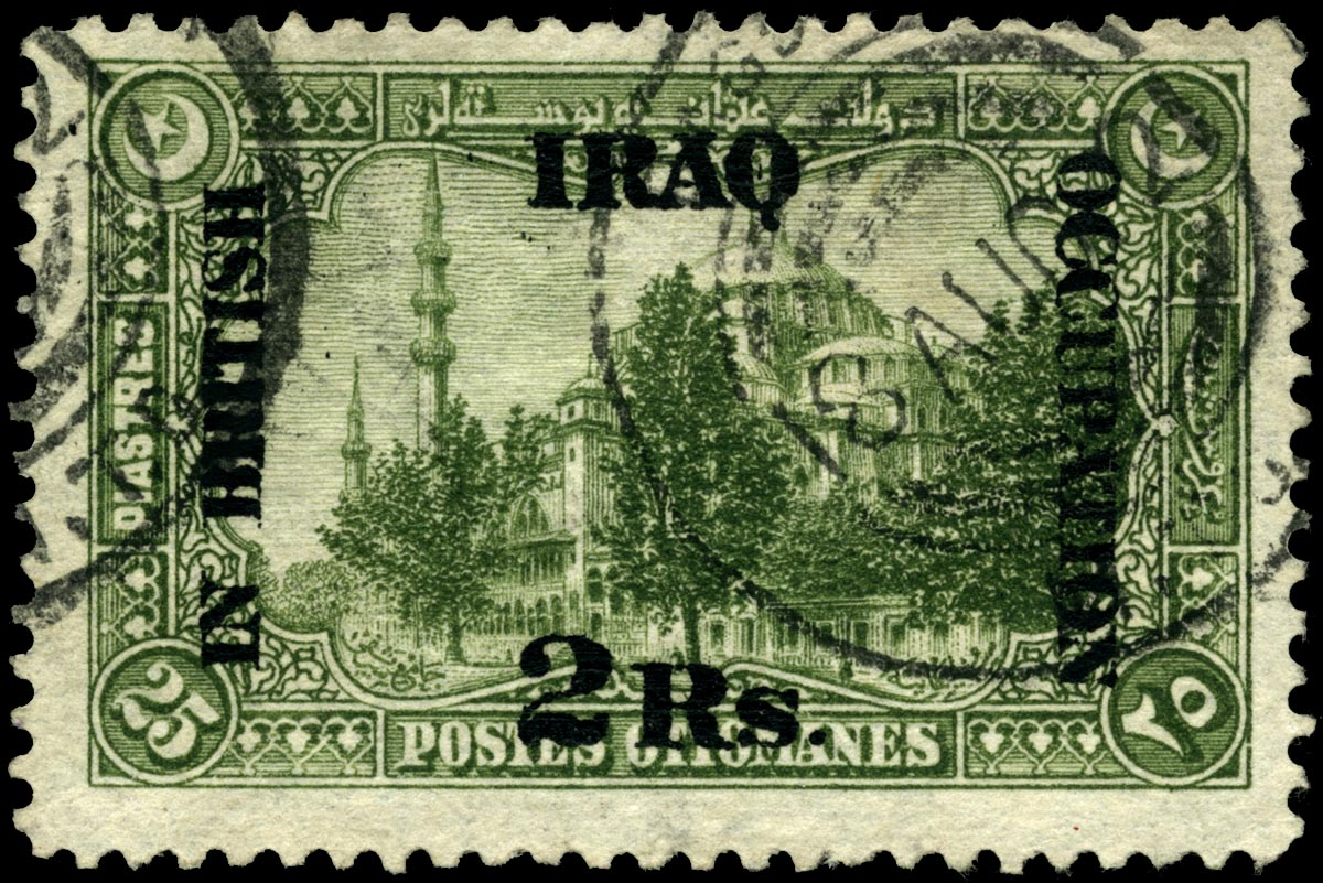 Mesopotamia 2-rupee overprint stamp of 1920